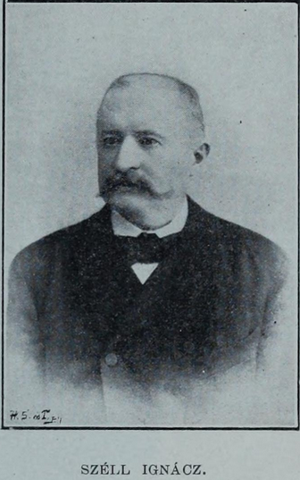 Portrait of Széll Ignác